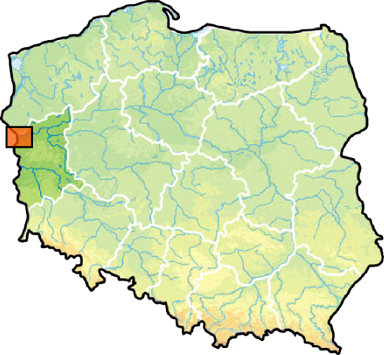 Ujście Warty National Park - localization. I've made this using the lubuskie voivodship map from Commons just adding the red rectangle.